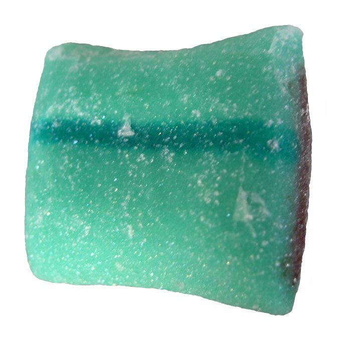 A coussin of Lyon ("cushion of Lyon"), a confectionery from Lyon, France.